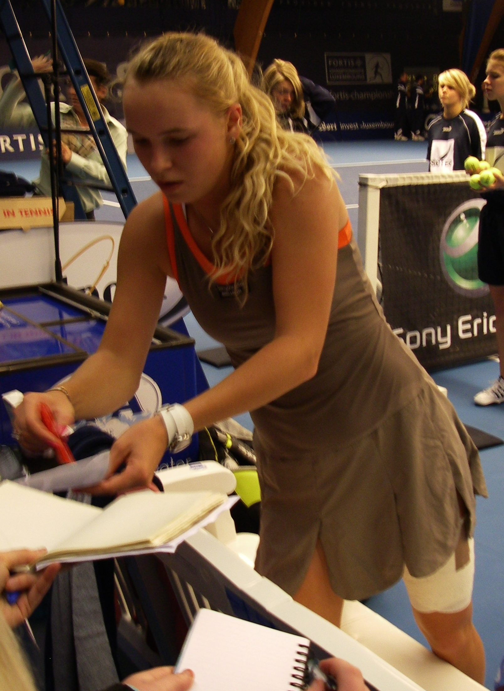 Caroline Wozniacki at 2008 Fortis Championships Luxembourg